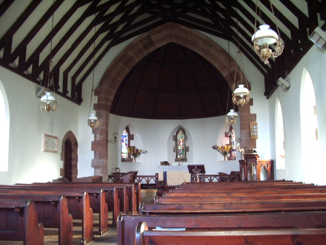 Interior of St John the Evangelist Church, Woodland.